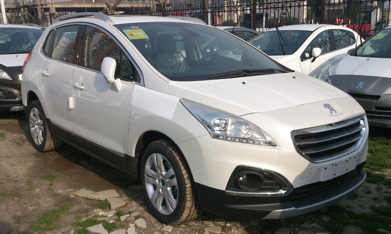 Peugeot 3008 CN photographed in Shanghai, China.